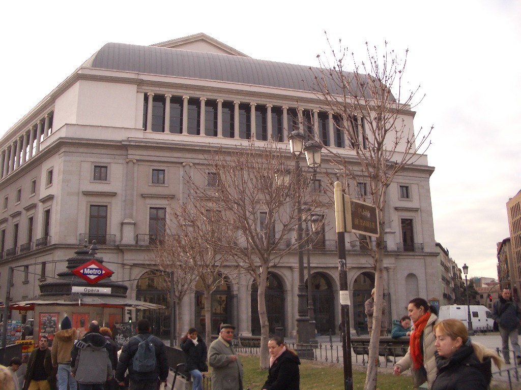 Royal Theater of Madrid Spain